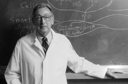 Dr. Robert F. Furchgott, Winner of the 1998 Nobel Prize in Medicine